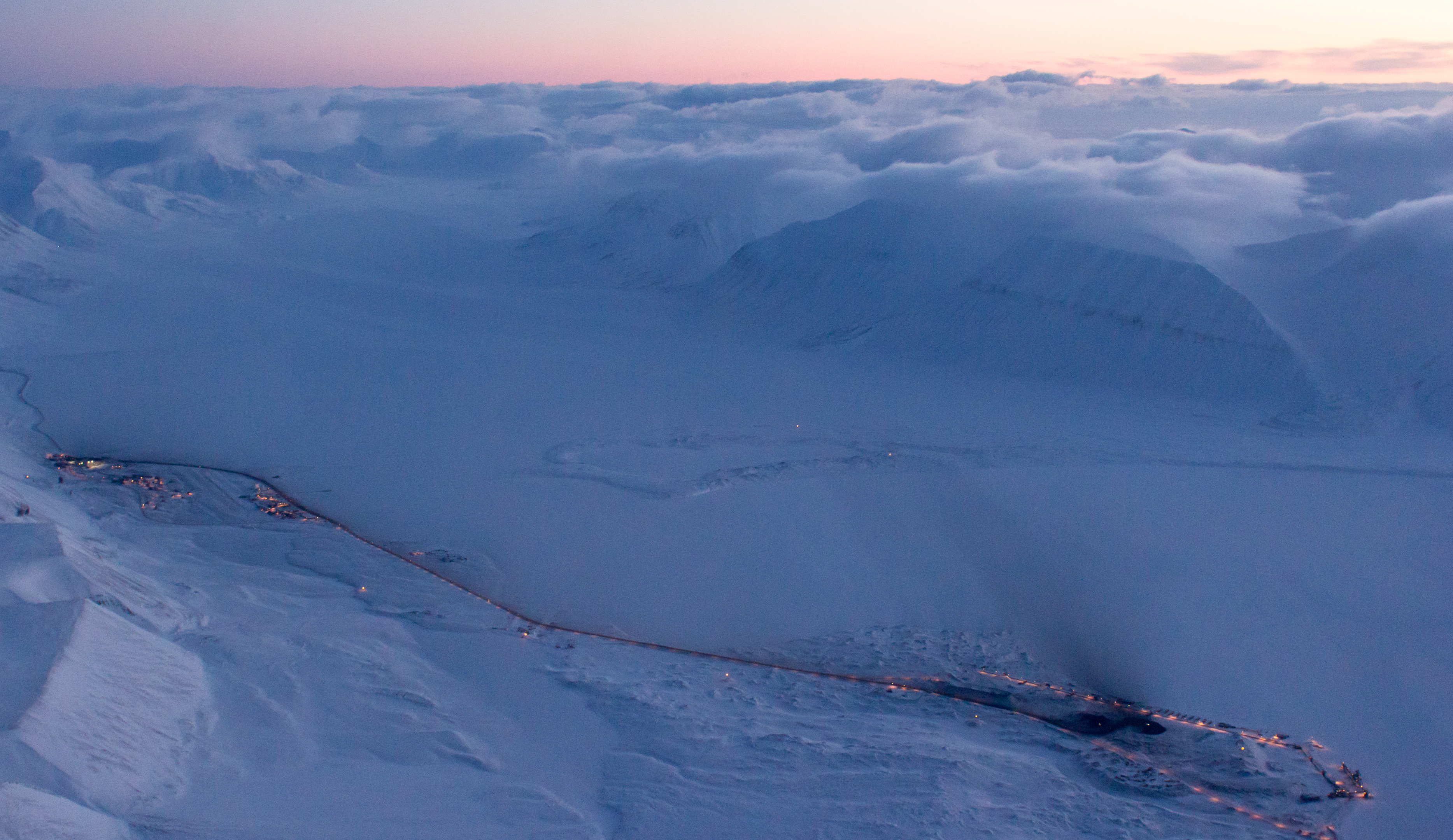 Svea, Spitsbergen, Svalbard as seen from the air. The Svea community is to the left in the picture, Port Amsterdam to the right. The coal is deposited here during the winter, while Van Mijenfjorden is covered with ice.